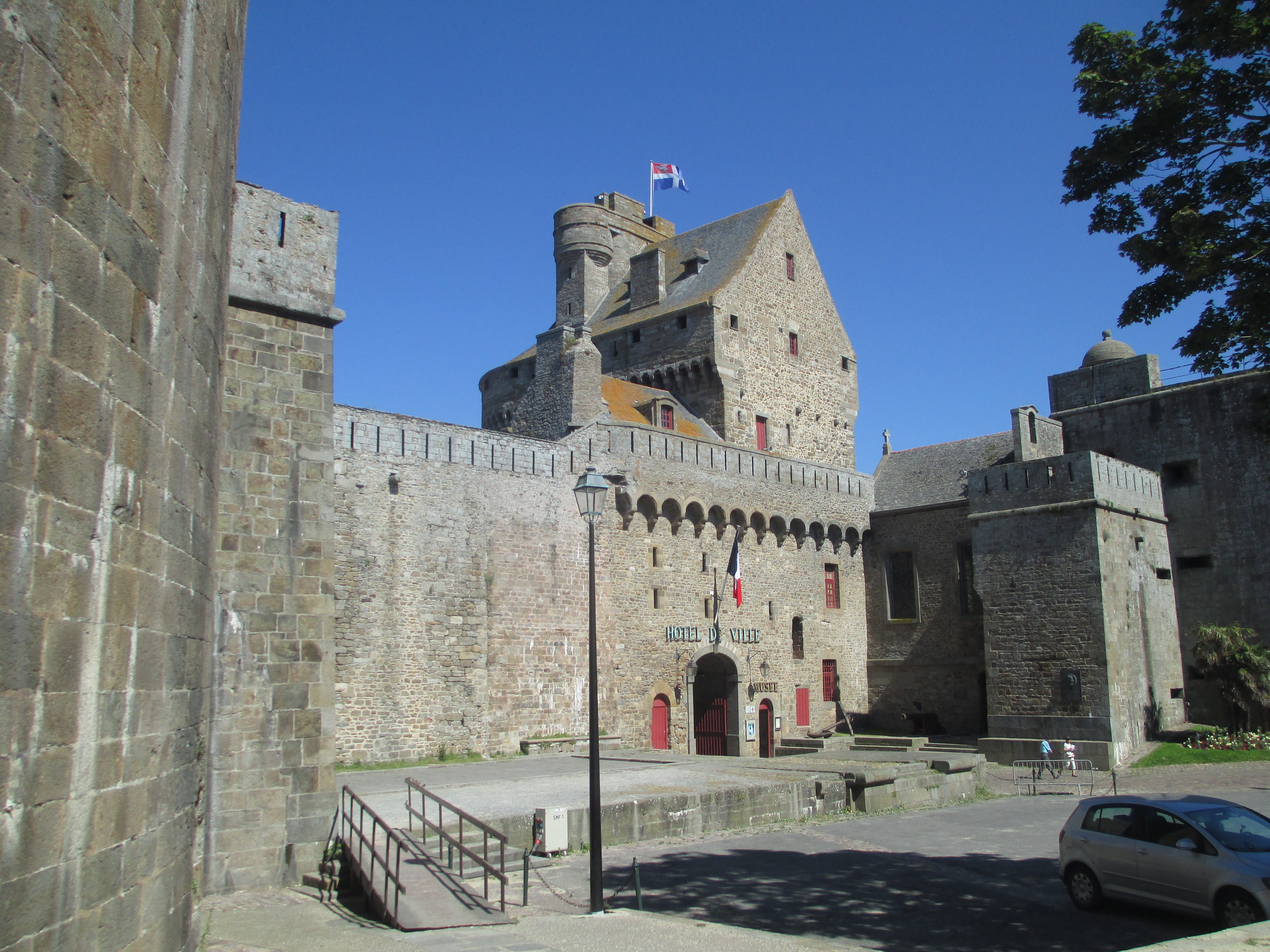 Ramparts of Saint-Malo -Château de Saint-Malo